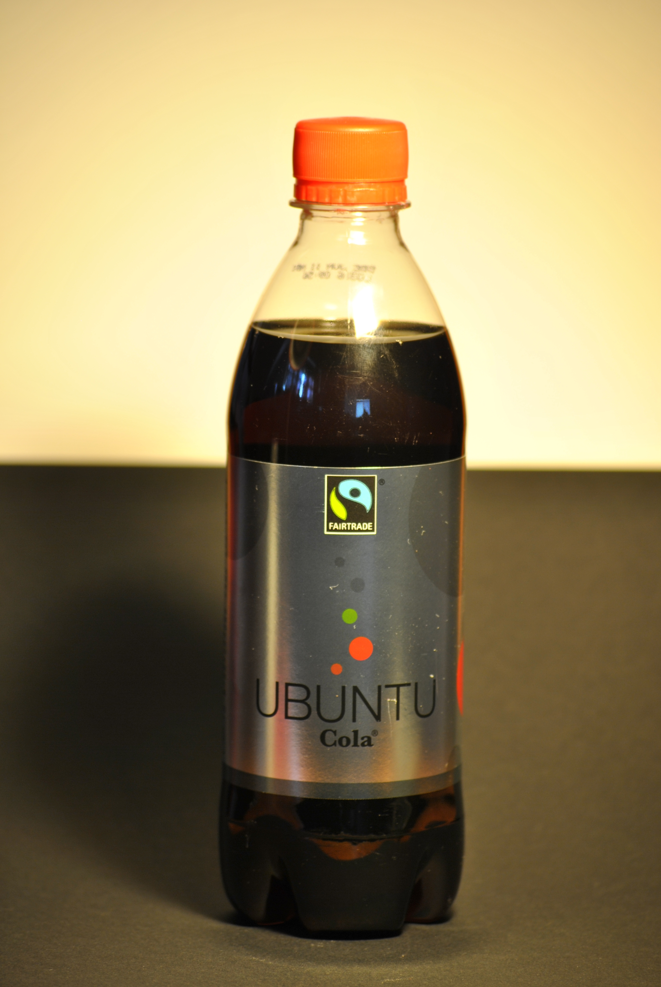 A bottle of Ubuntu Cola bought in Sweden.